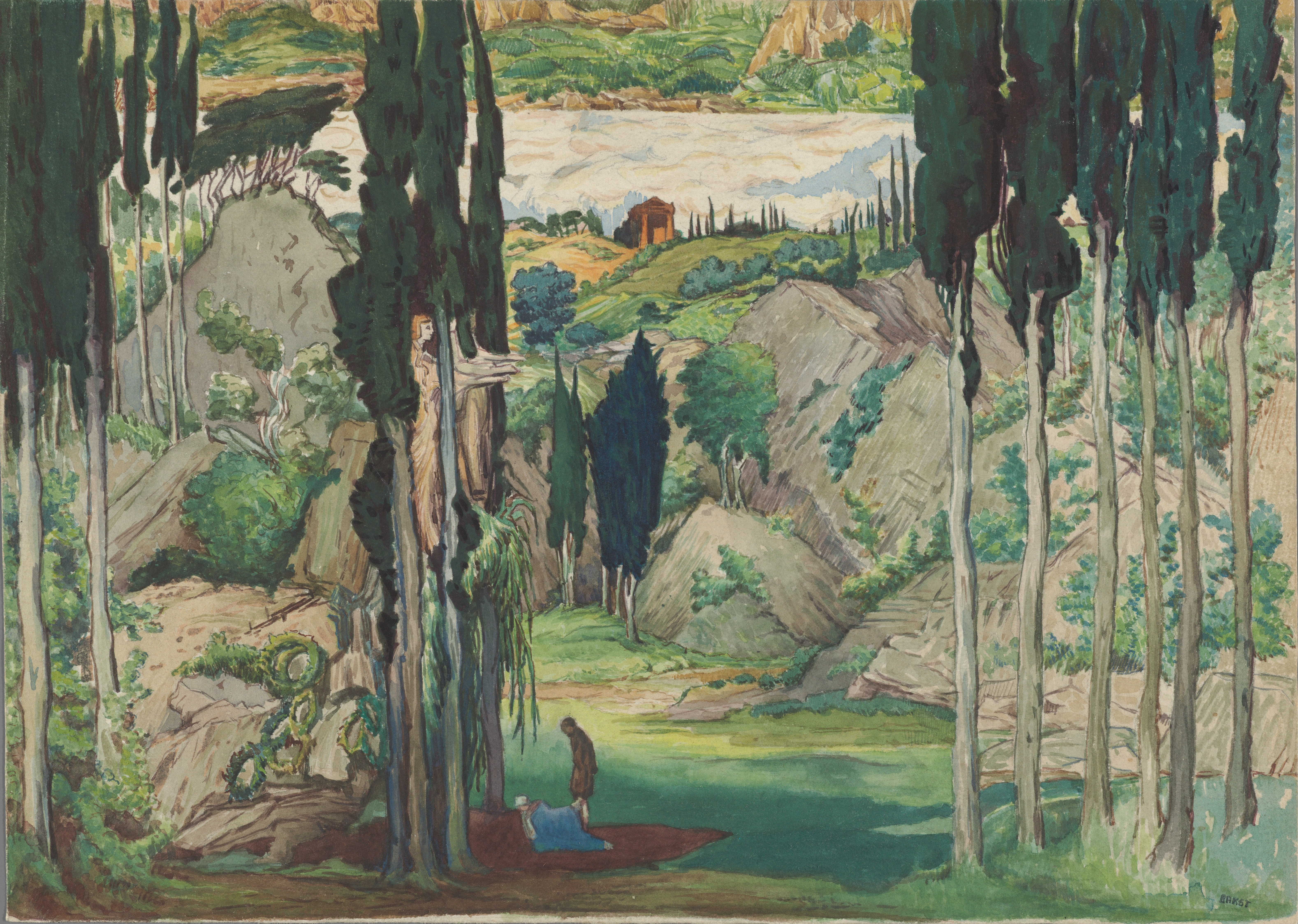 Drawing: Set design for Act I from Daphnis and Chloe, 1912. Scanned from original. Watercolor on paper; 19 x 27 centimeters. Inscription on verso: "Daphnis et Chloe, décor du 1er acte, par Leon Bakst." MS Thr 414.4 (9), Harvard Theatre Collection, Houghton Library, Harvard University